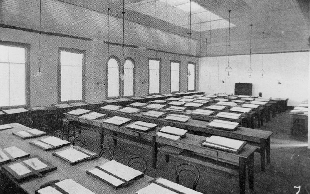 Inside Mount Morgan Technical College's Drawing Class Room, Mt. Morgan, 1909 Classroom full of students' desks laid with drawing papers.